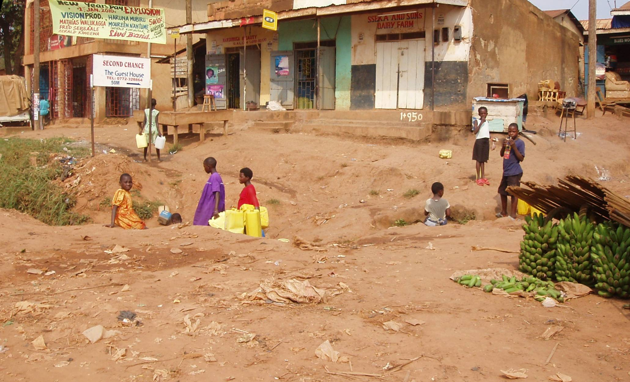 Most of the people living in slums rely on water from wells. The orgin of the water is often not clear, though at least visually it seems to be OK. Photo: Enno Schröder, Uganda 2010